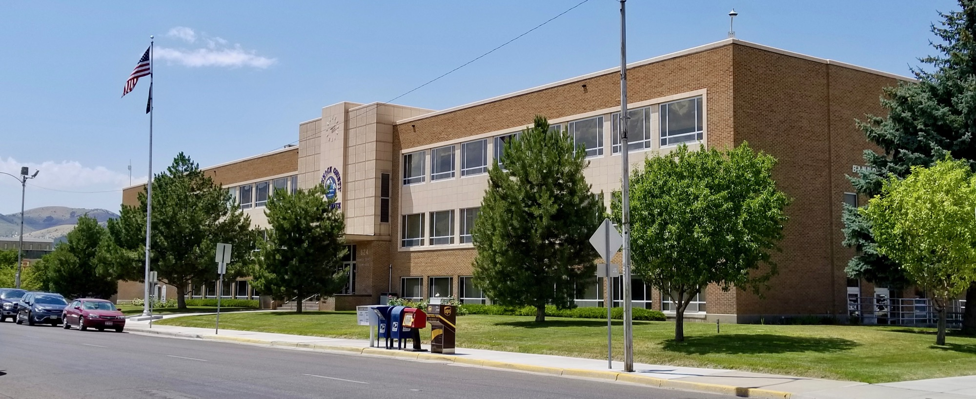 Bannock County Courthouse, photo by John Stanton 17 Jul 2017